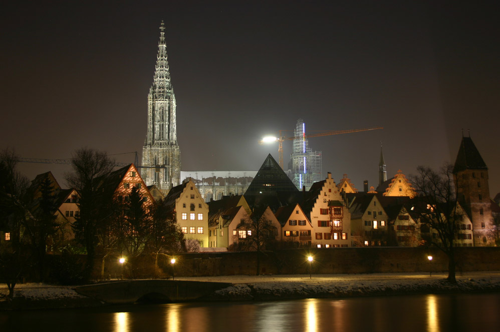 Skyline from Ulm/Germany at night